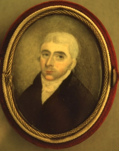 Samuel Holten (Massachusetts Congressman)